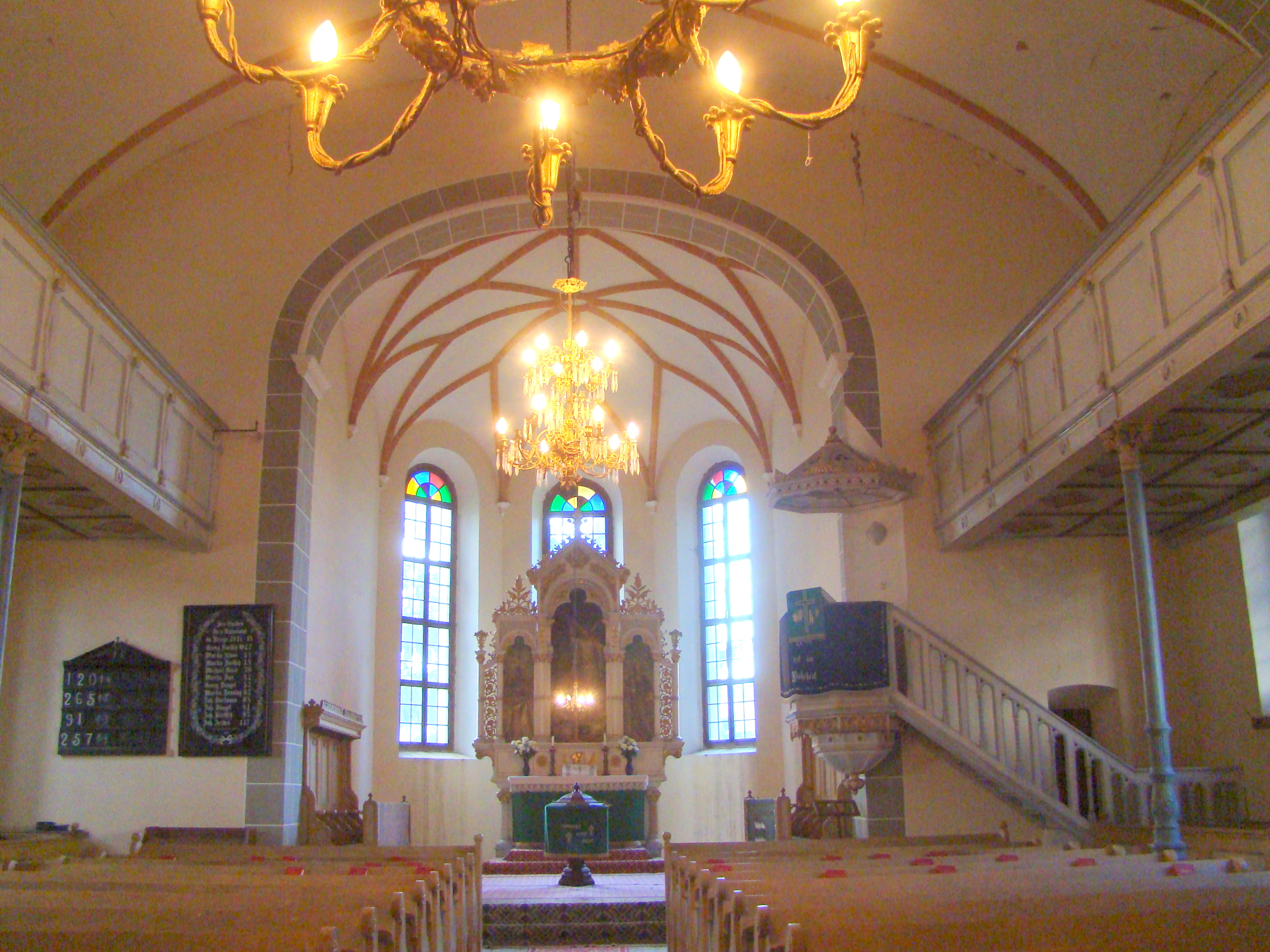 Lutheran church in Lovnic, Brașov County, Romania